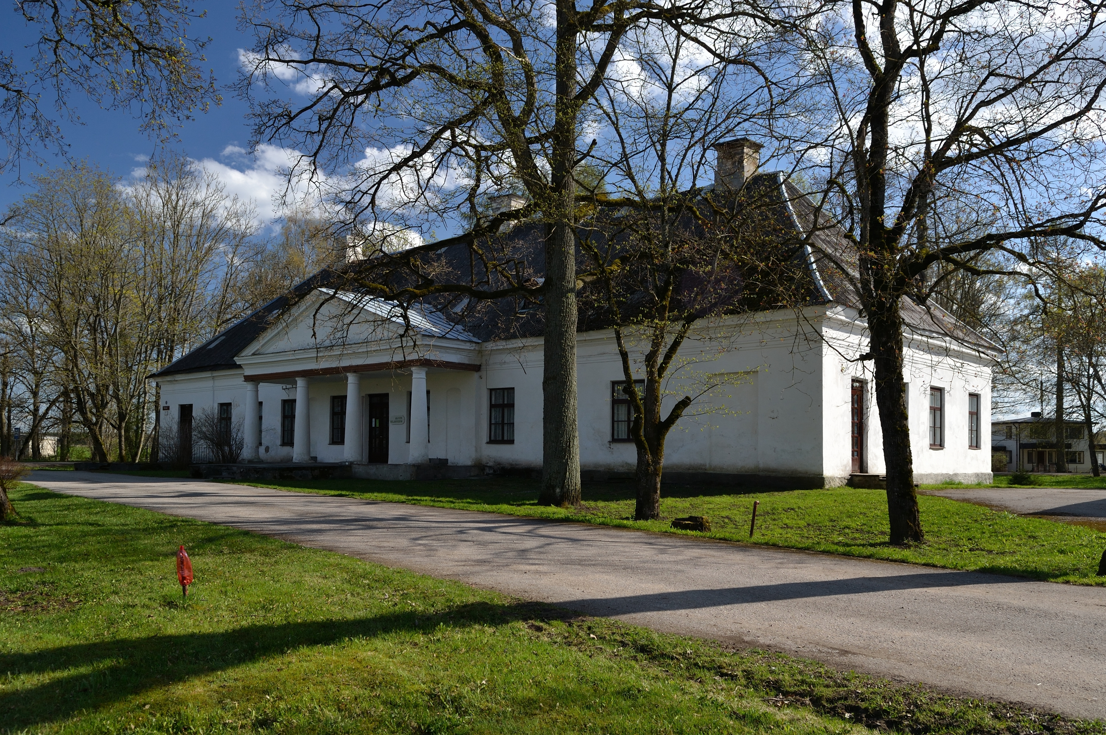 Kurisoo manor main building